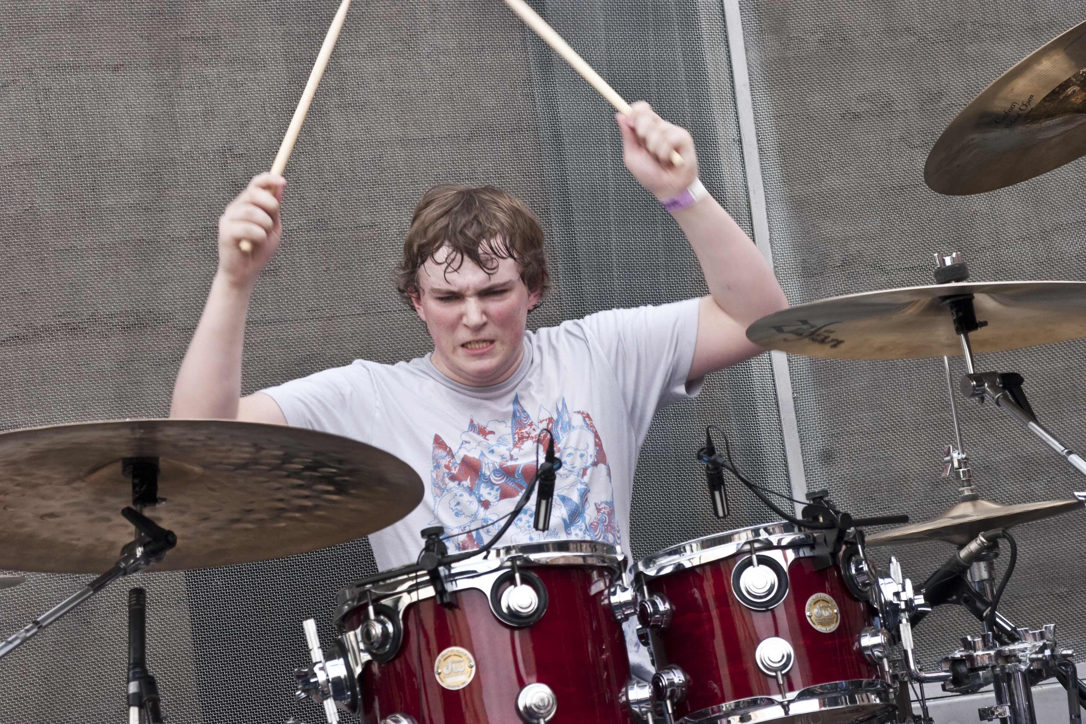 Mike Byrne of The Smashing Pumpkins playing drums.